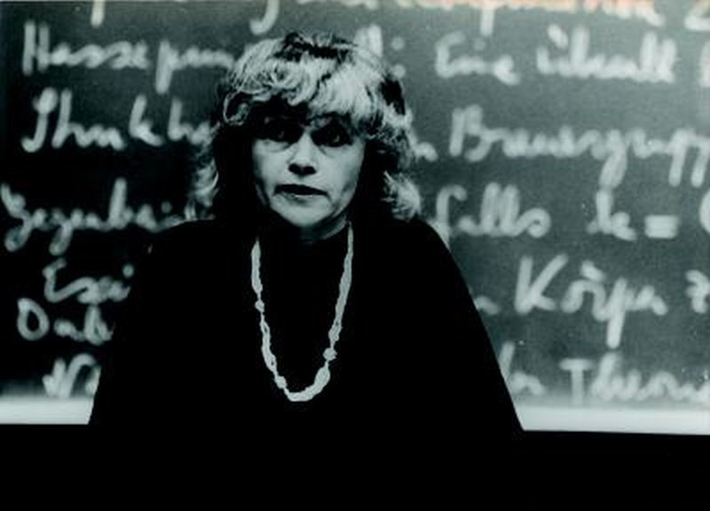 Ina Kersten auf dem Gedenkkolloquium für Ernst Witt 1991 in Hamburg